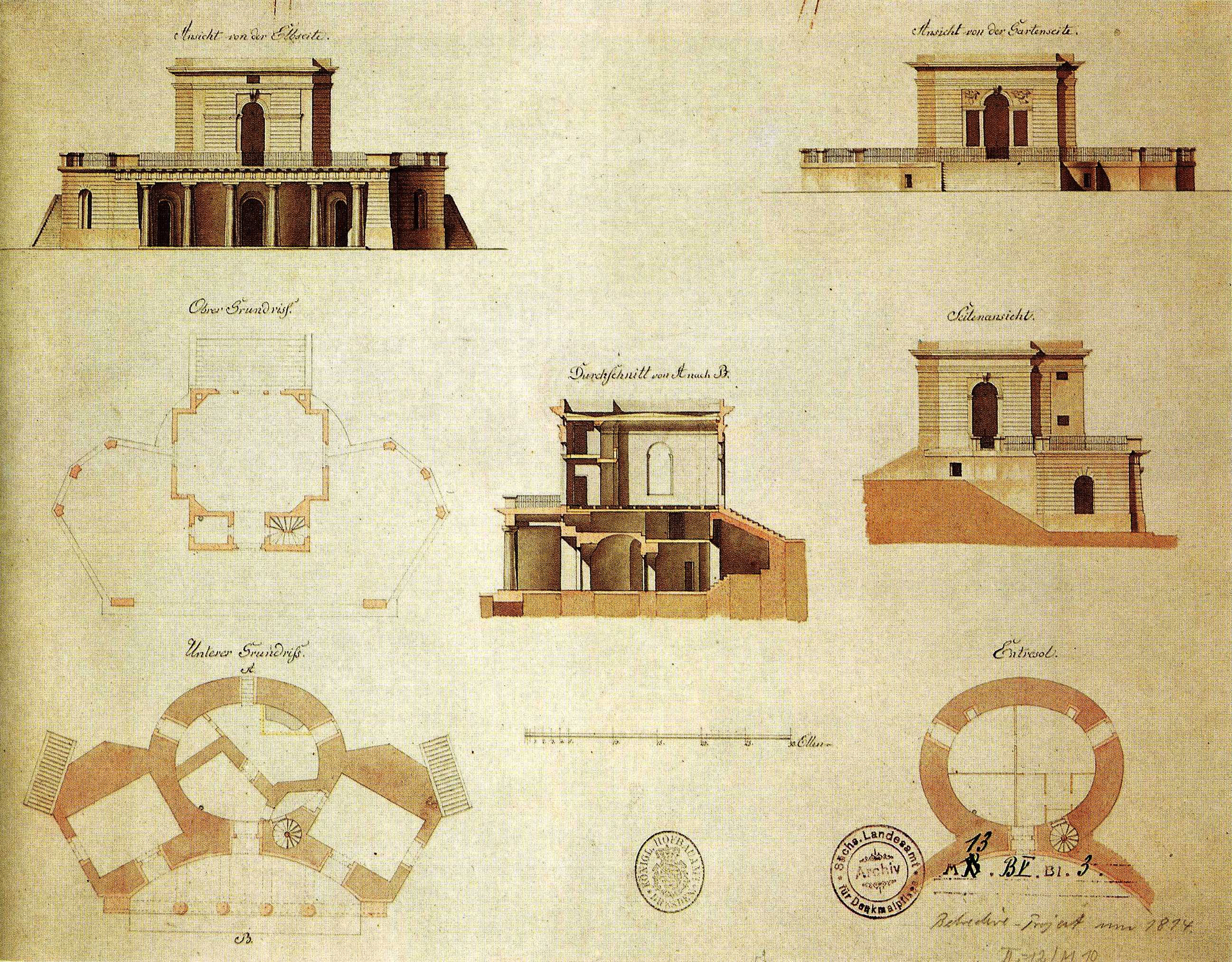 Drittes Belvedere